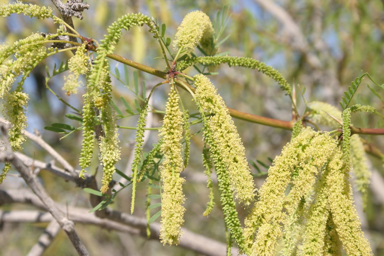 Prosopis glandulosa, Coachella Valley, Riverside County, California